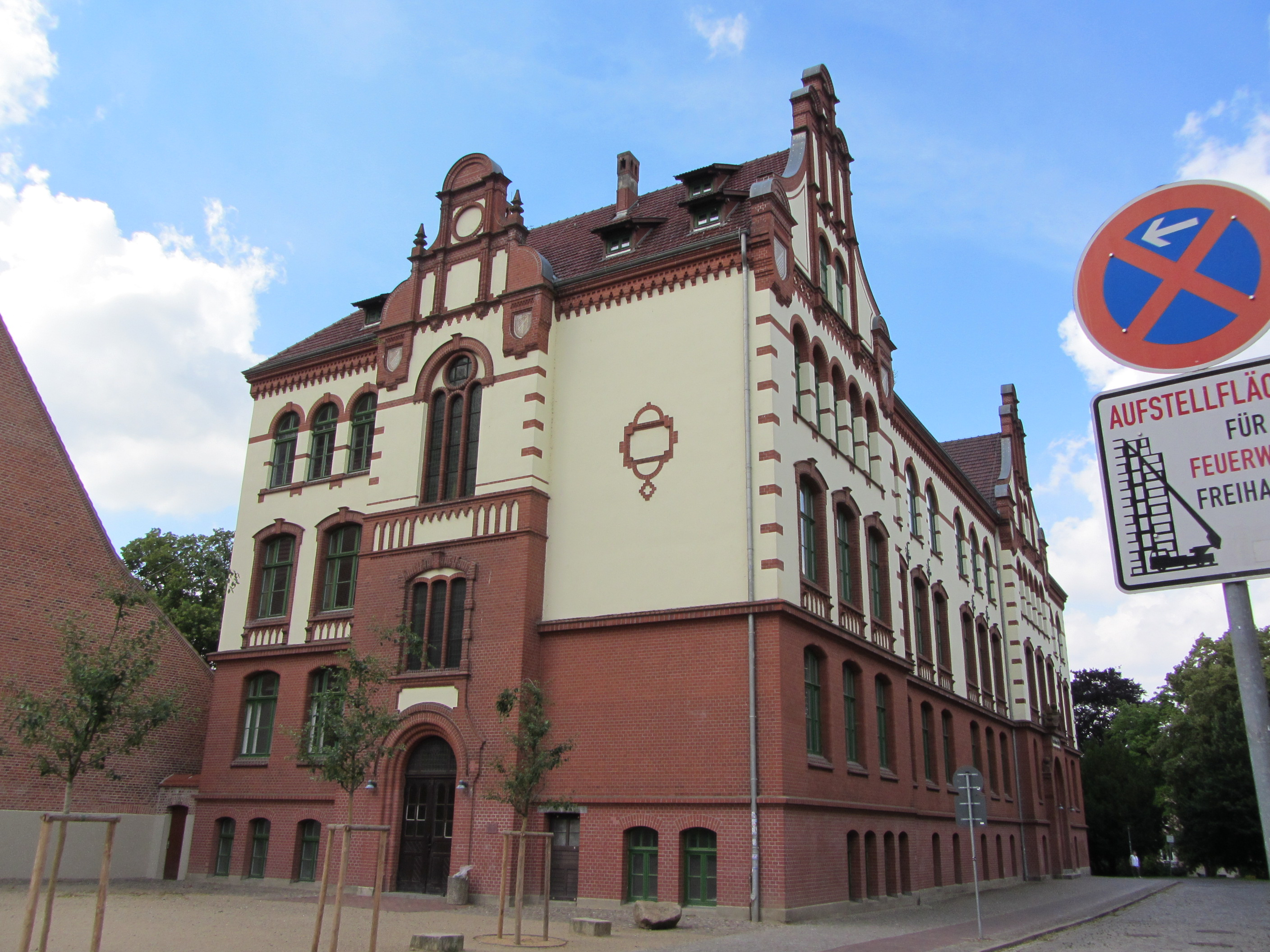 School John-Brinckman-Gymnasium in Güstrow, district Rostock, Mecklenburg-Vorpommern, Germany